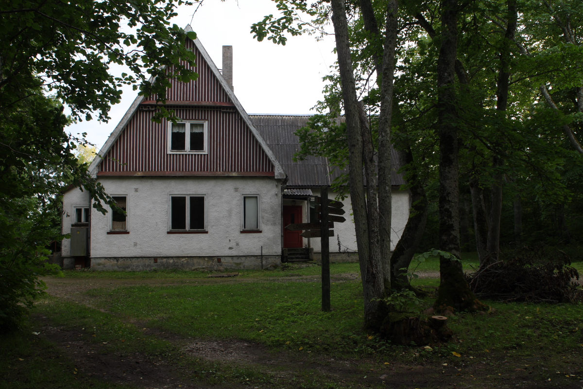 Puhtulaid, Lääne County, Estonia